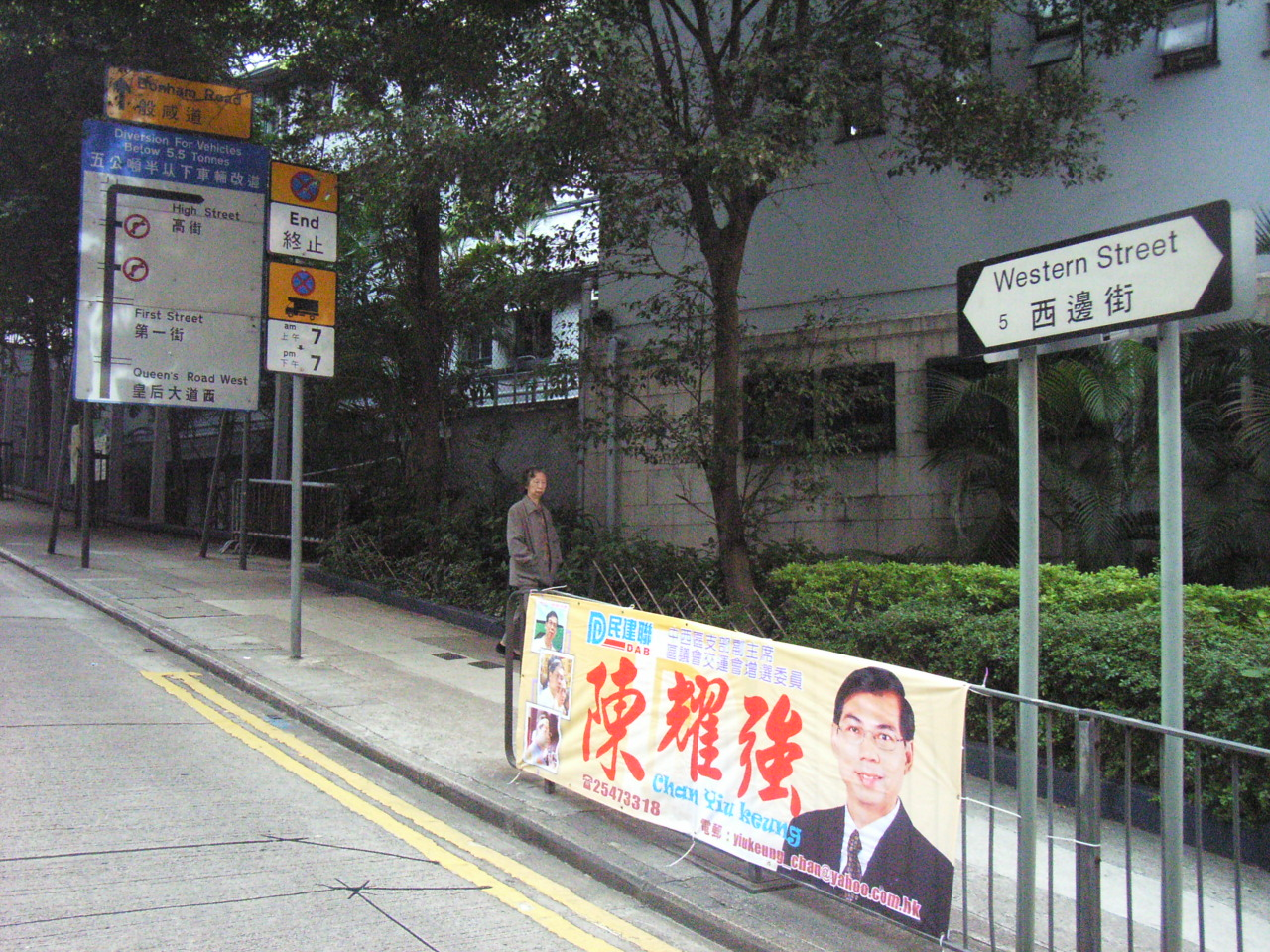 Western Street, Hong Kong (西邊街), is a street in Sai Ying Pun, Hong Kong Island. Author:zh:User:KennethTom